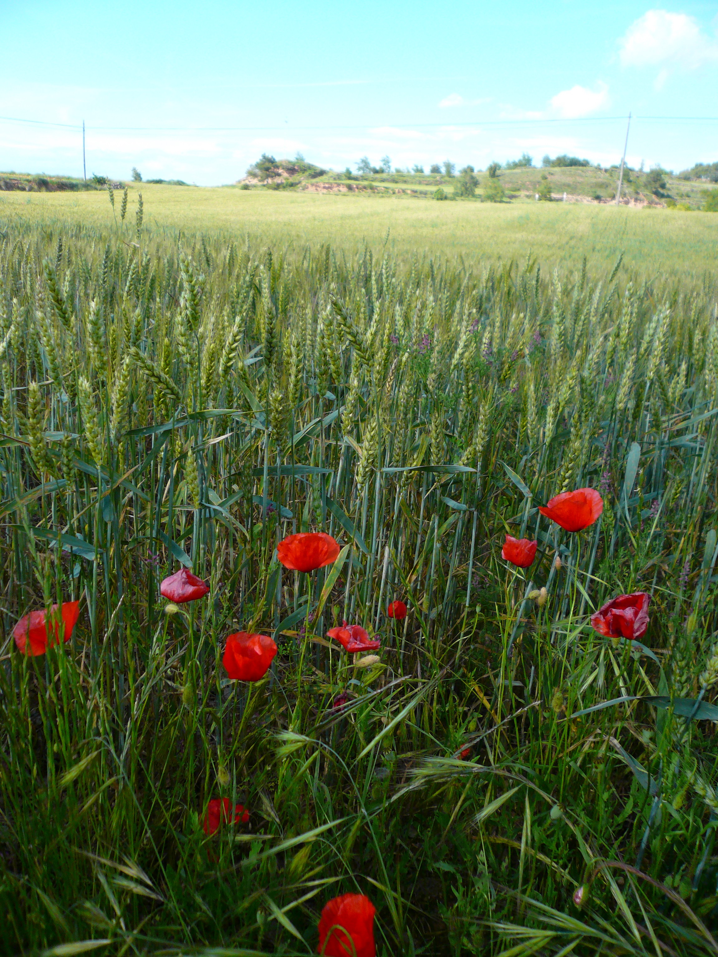 Wheat field in els Prats de Rei (Anoia, Catalonia), with Papaver rhoeas, Fumaria officinalis and Avena sp..